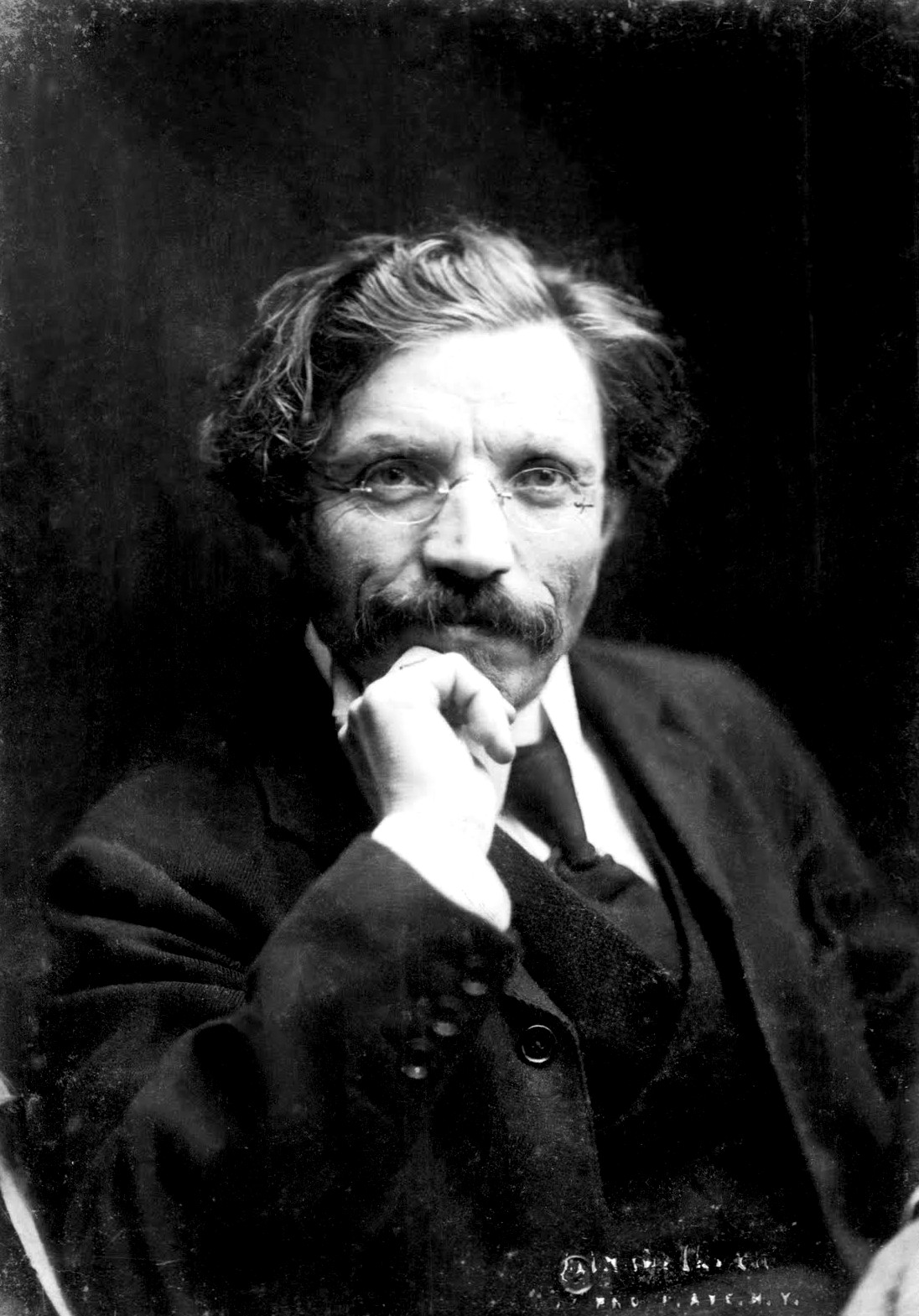 Portrait of Sholem Aleichem in New York, from Beit Sholem Aleichem